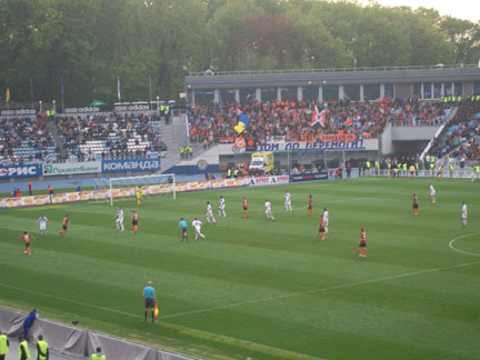 Scenes from Dynamo vs Shakhtar at VVLoban Dynamo Stadium 2011 Season Round 27 (Ukrainian Derby)